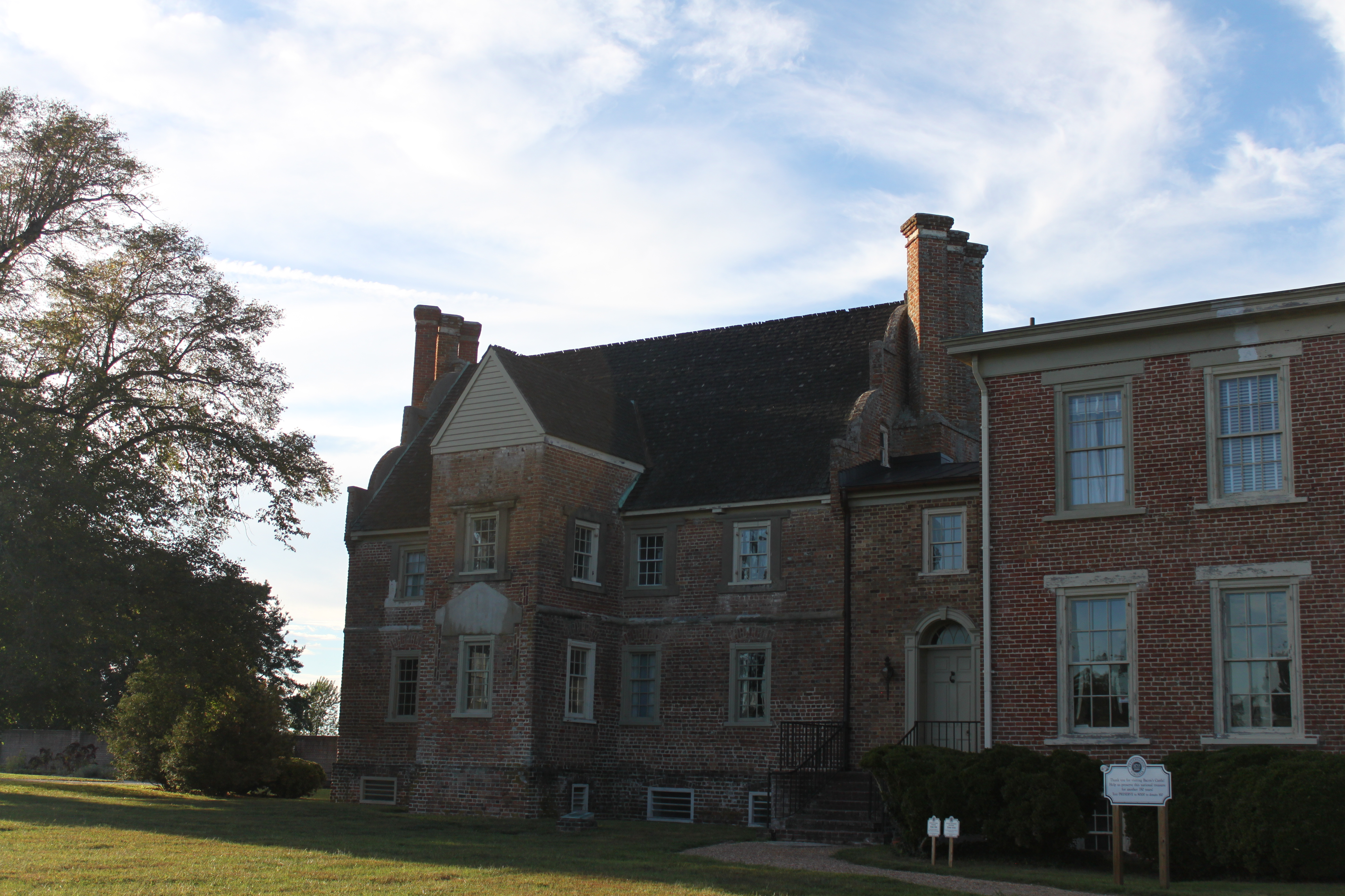 Bacon